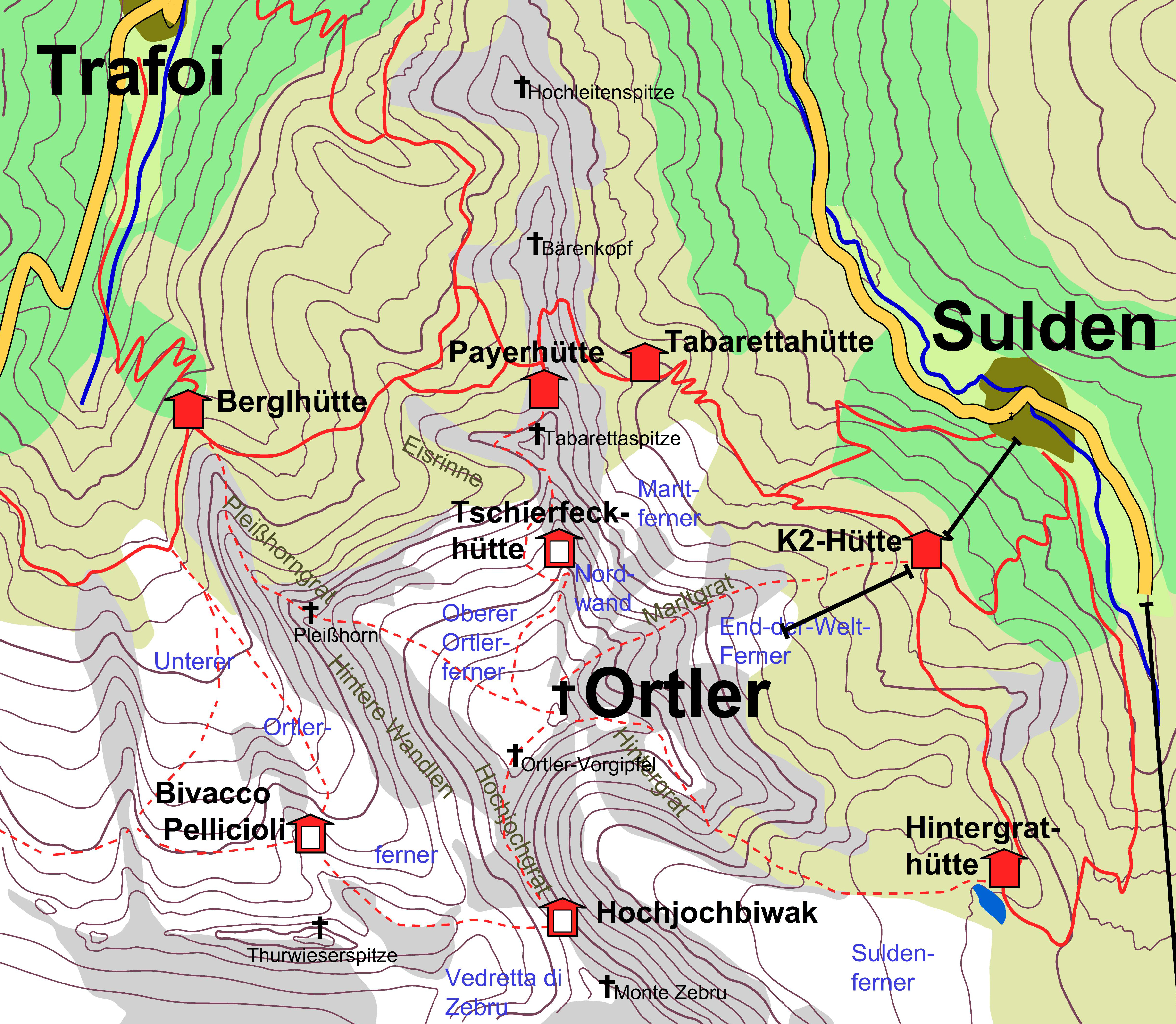 Map of Ortler area